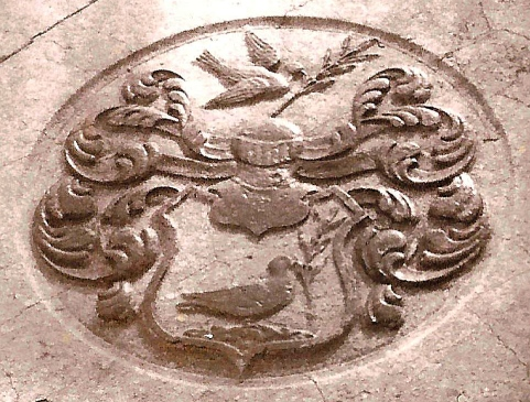 Coat of Arms Knottnerus family